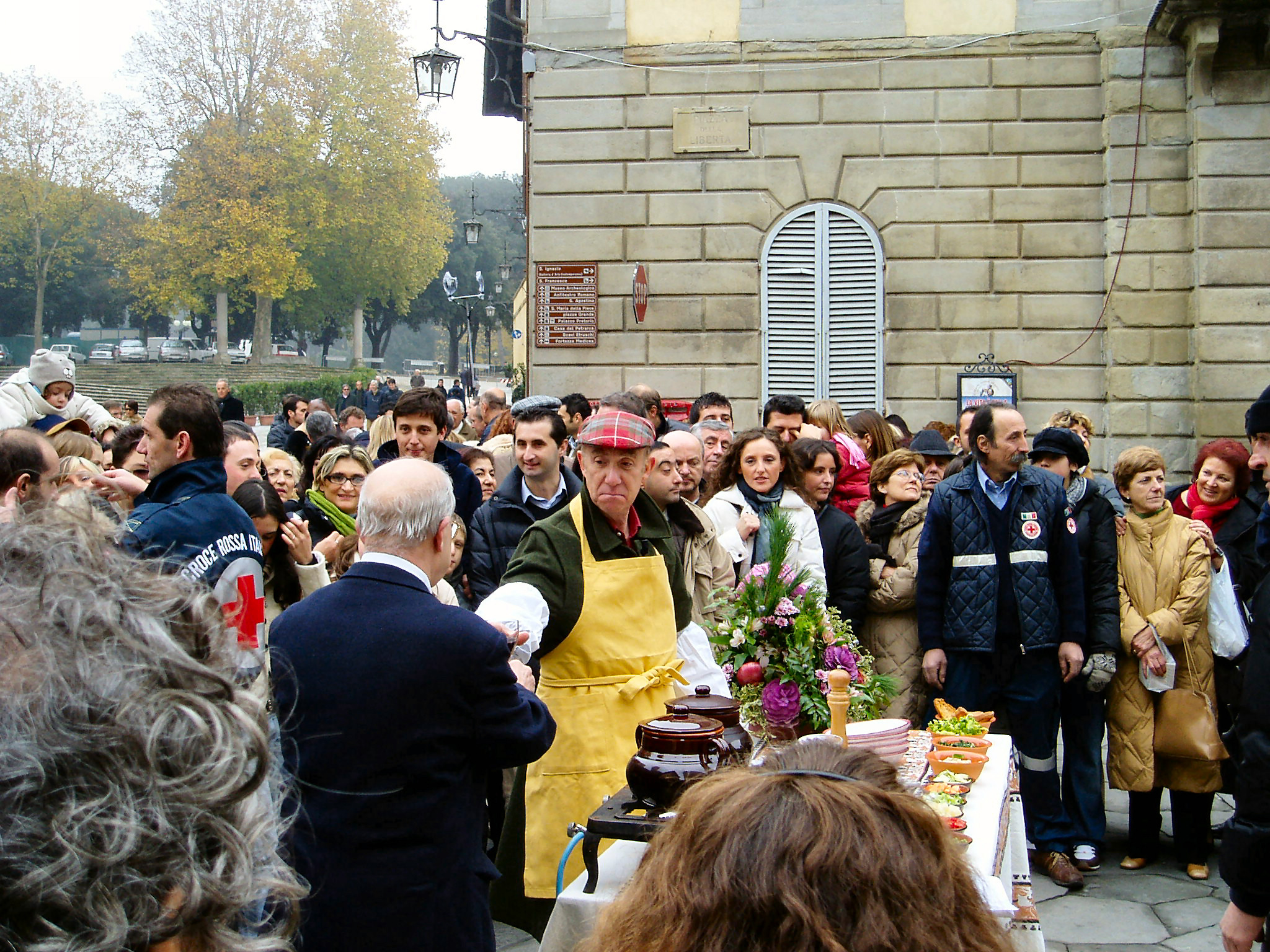 Davide Mengacci, Italian television personality, in Arezzo in 2004